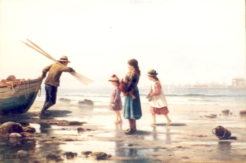 Homecoming, New York Harbour.